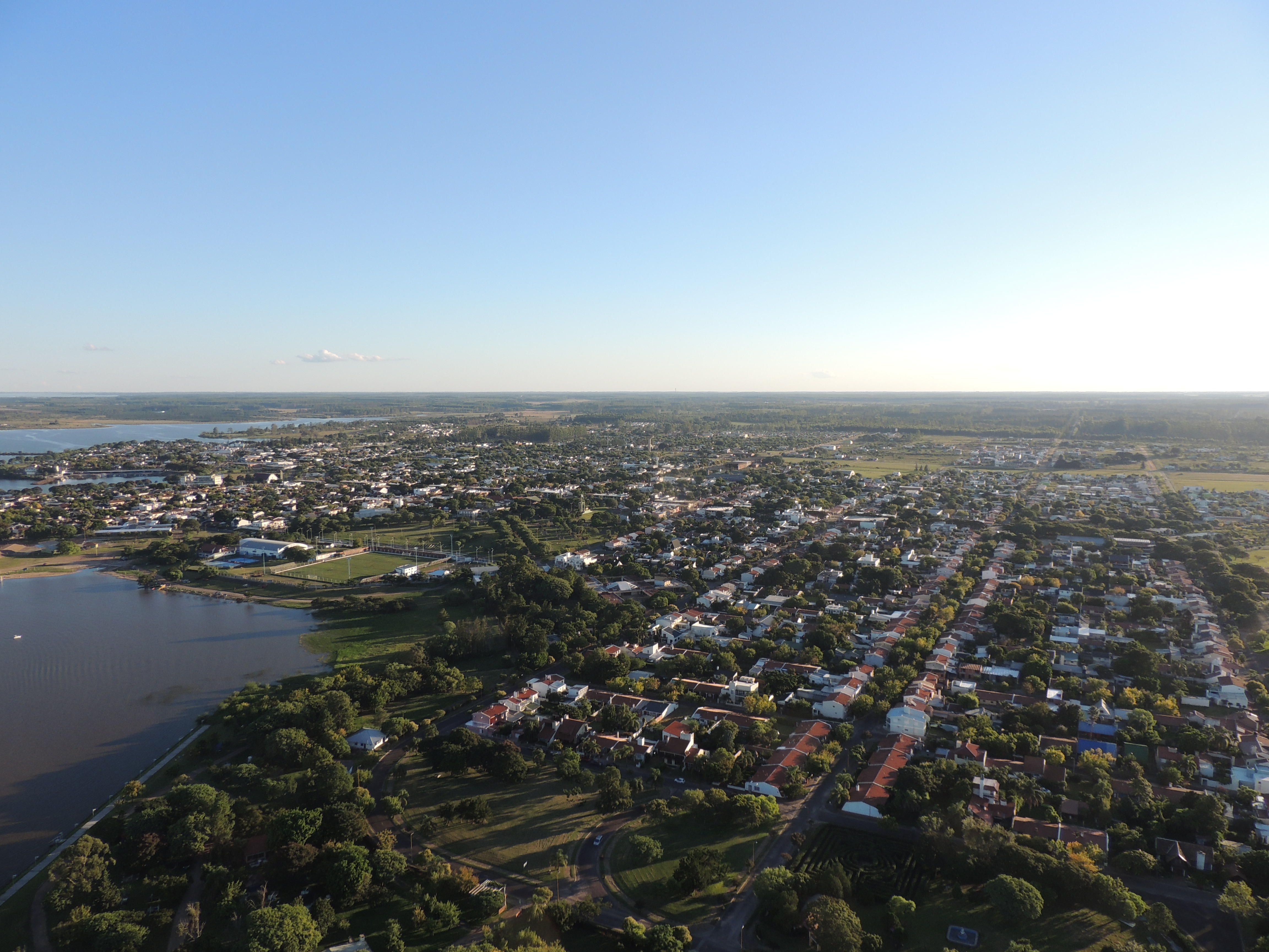 The city of Federación as seen from the air.